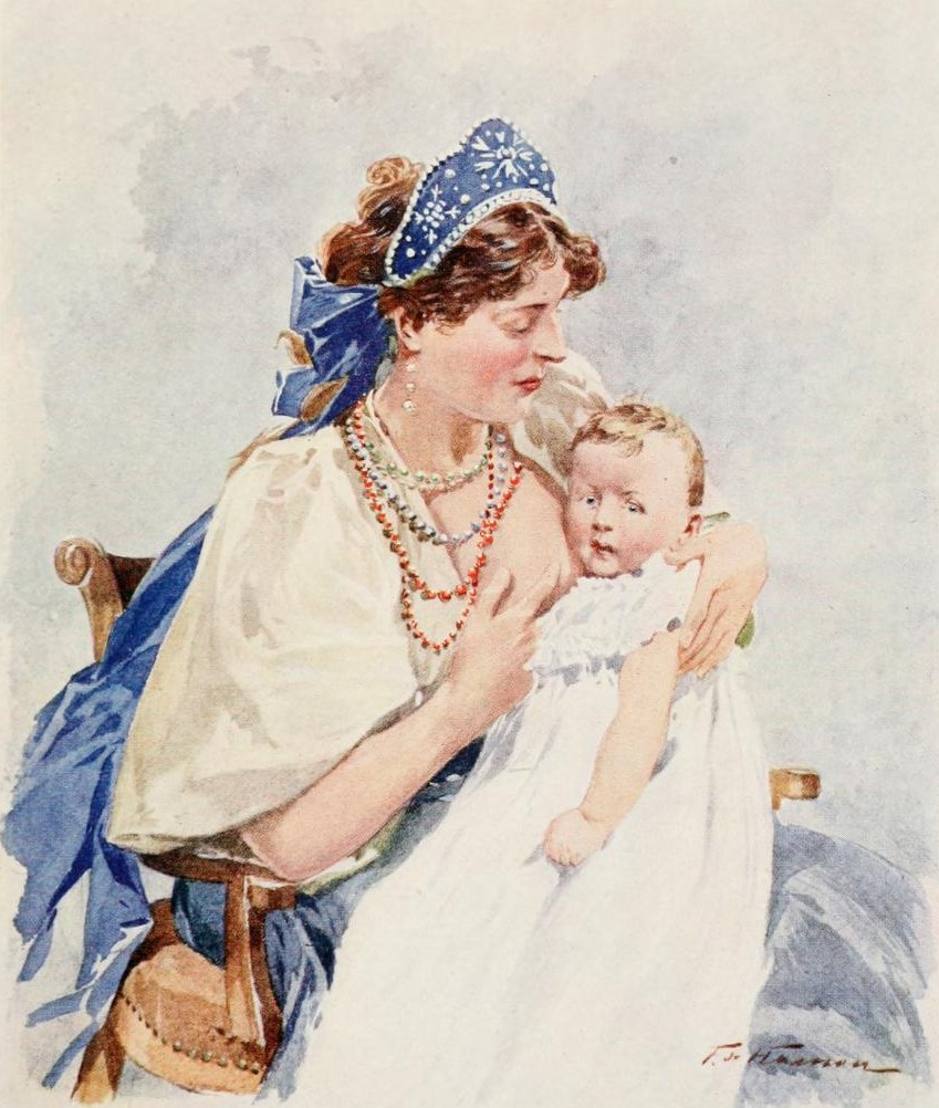 A Russian wet nurse, c. 1913. Painted by Frédéric de Haenen